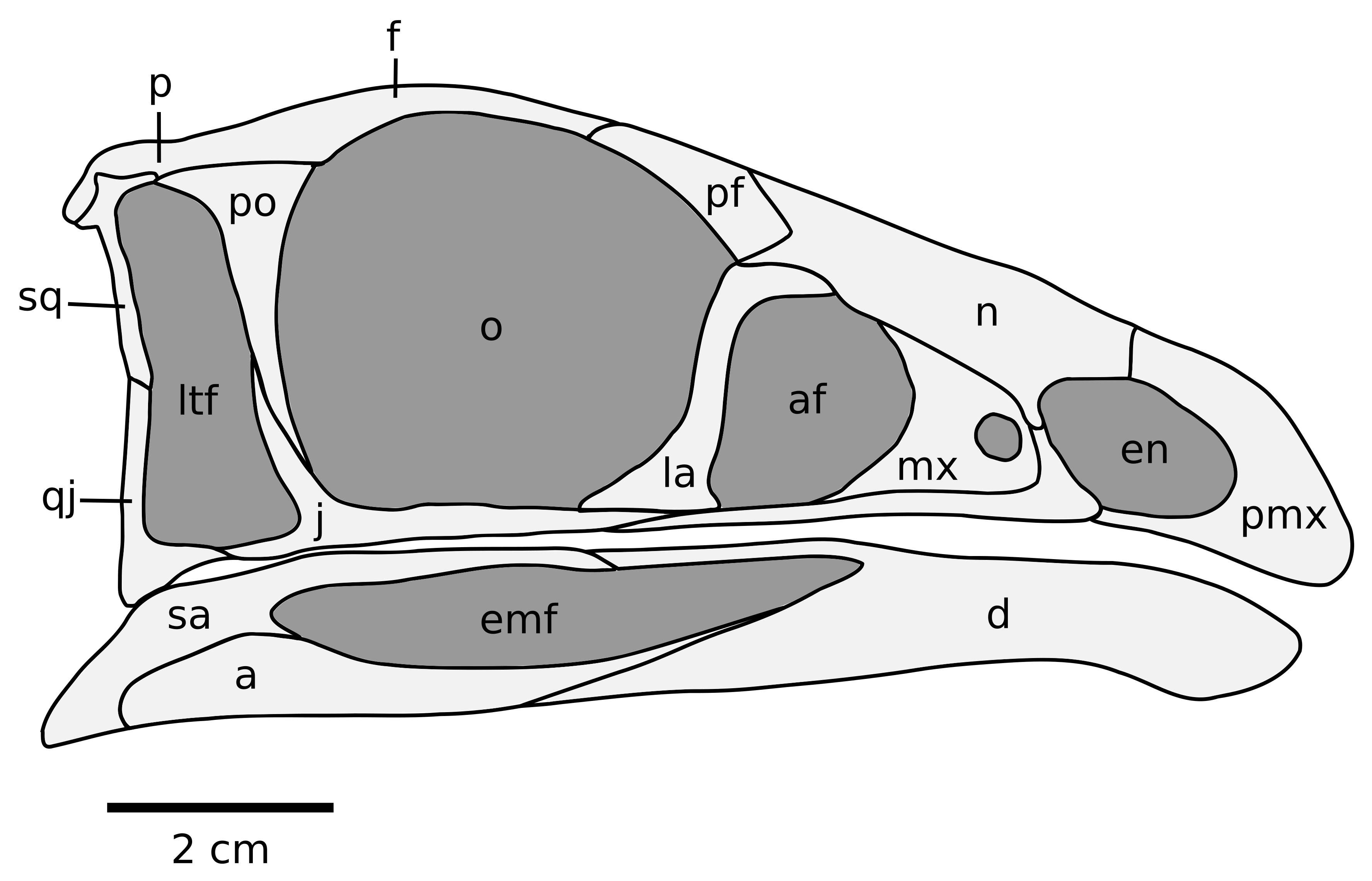 Drawn from images only, with Xing et al. 2009 (Figure S1a; [1]) as guidance. This reconstruction is only schematic and may not be exact. Abbreviations: a – angular; af – antorbital fenestra; d – dentary; emf – external mandibular fenestra; en – external naris; f – frontal; j – jugal; la – lacrimal; ltf – lateral temporal fenestra; n – nasal; mx – maxilla; o – orbit; p – parietal; pf – prefrontal; pmx – premaxilla; po – postorbital; sa – surangular; sq – squamosal; qj – quadratojugal.